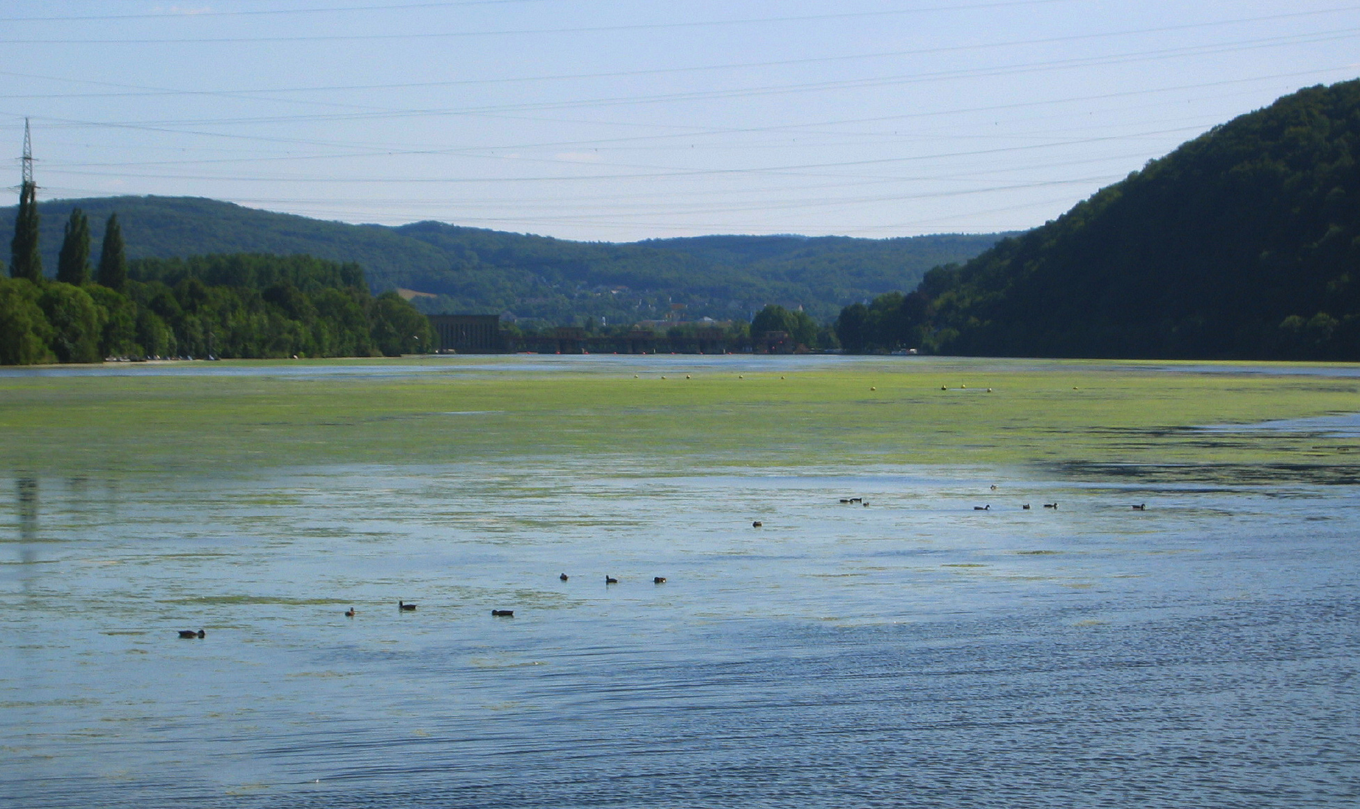 Masses of Elodea canadensis and Elodea nuttallii, Hengsteysee, North Rhine-Westphalia, Germany.